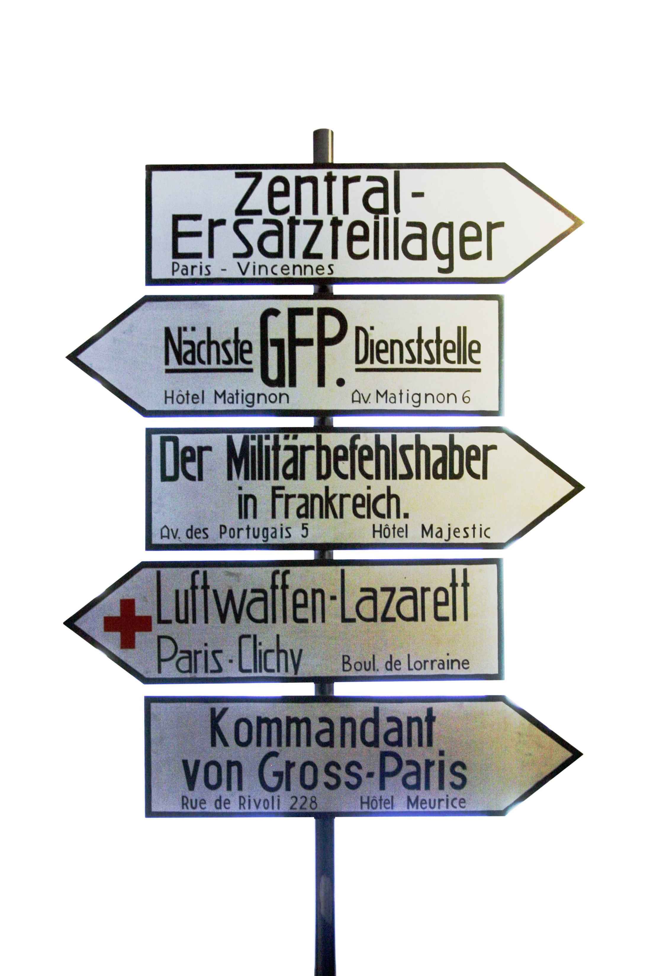 This image was taken at the Musée de l'Armée, Paris.